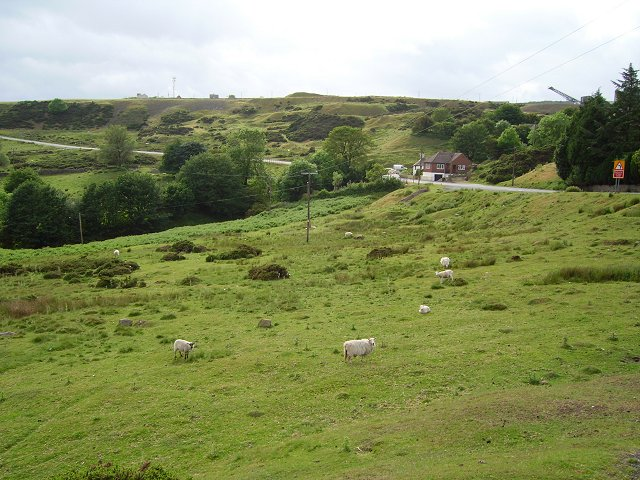 Cornbrook. The Cornbrook reentrant on Clee Hill Common. A nasty bend in the A4117 is well signed. Beyond are the dhustone quarries, now well hidden from ground based eyes.